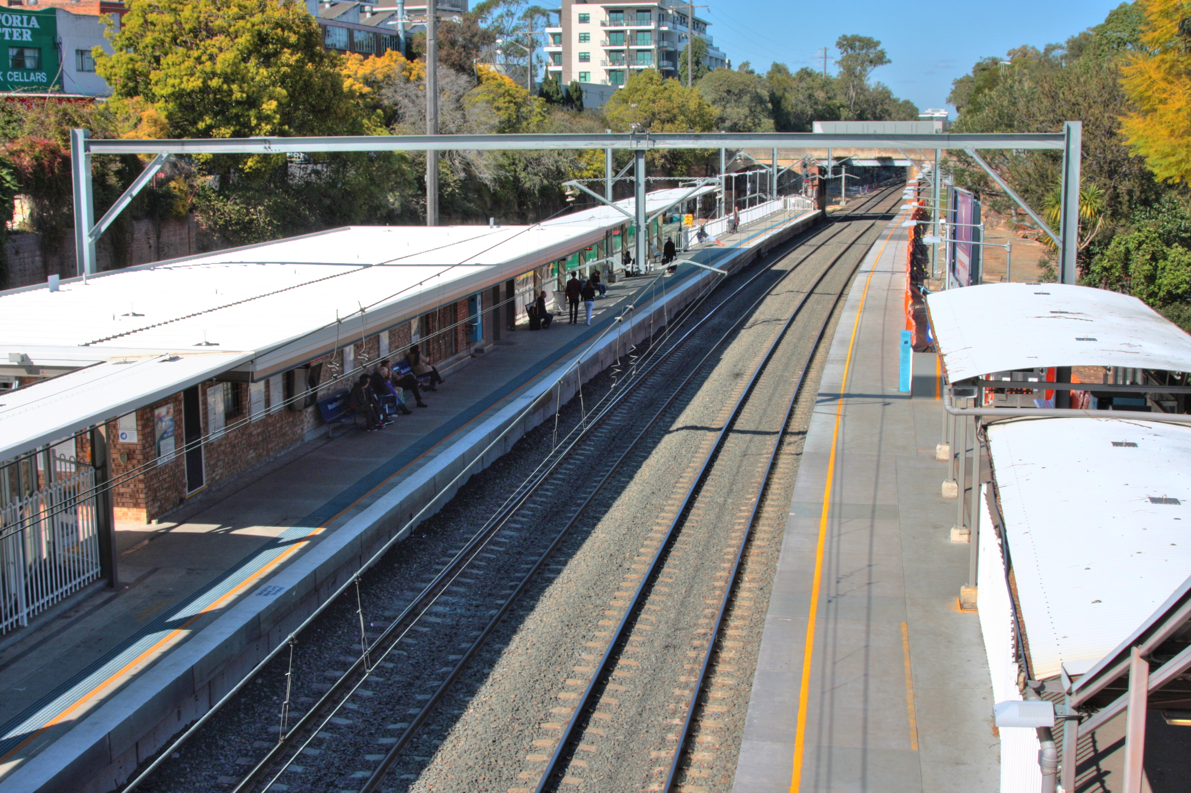 Meadowbank Railway station Sydney